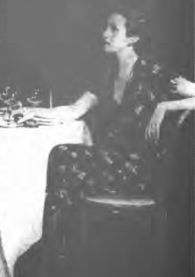 Georgian Princess Ketto Mikeladze at the dinner at the Ritz.